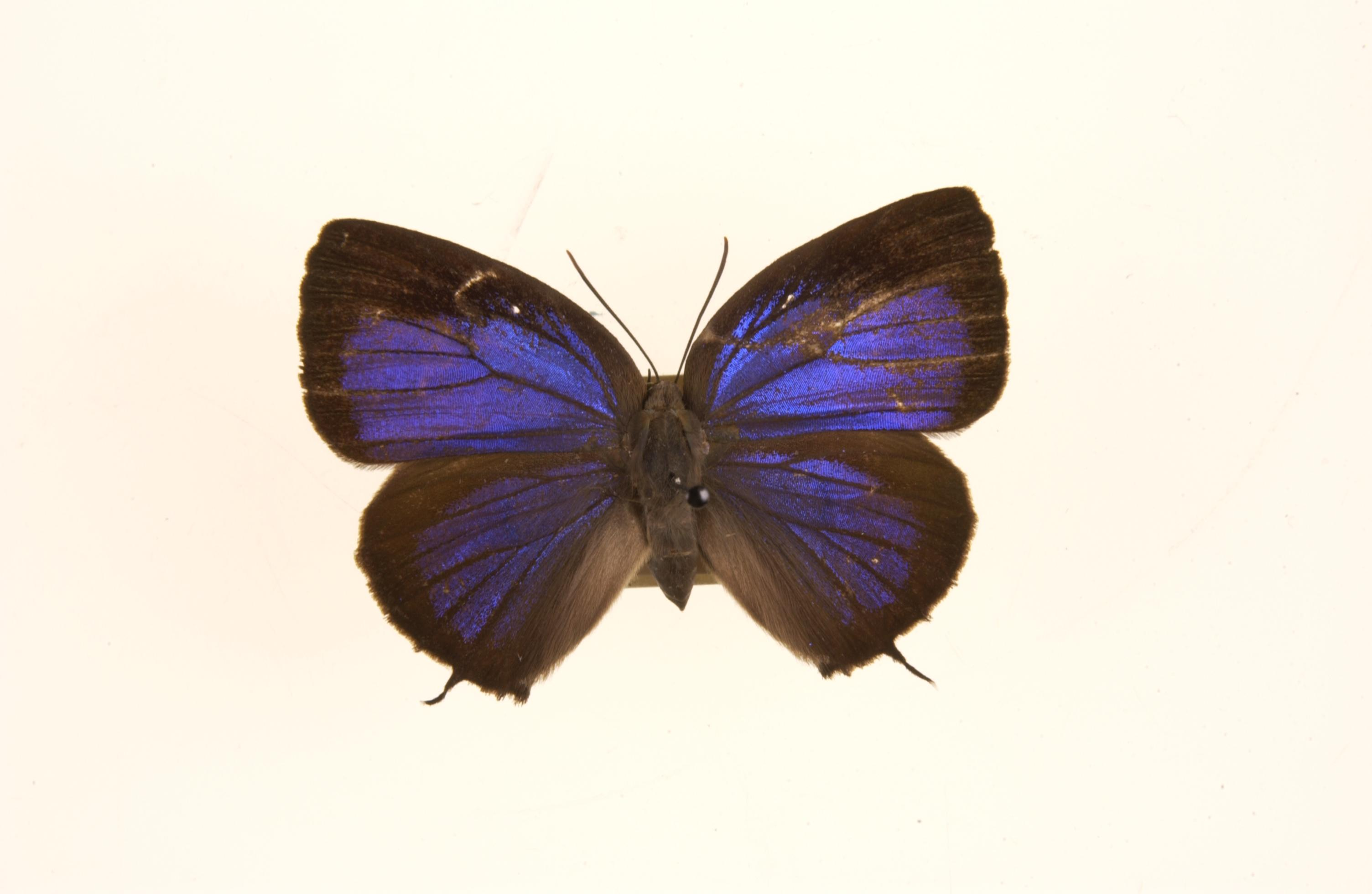 Arhopala horsfieldi Female